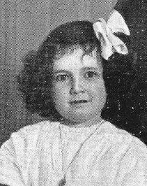 The infante Fernando María of Bavaria, his children and his wife the Duchess of Talavera